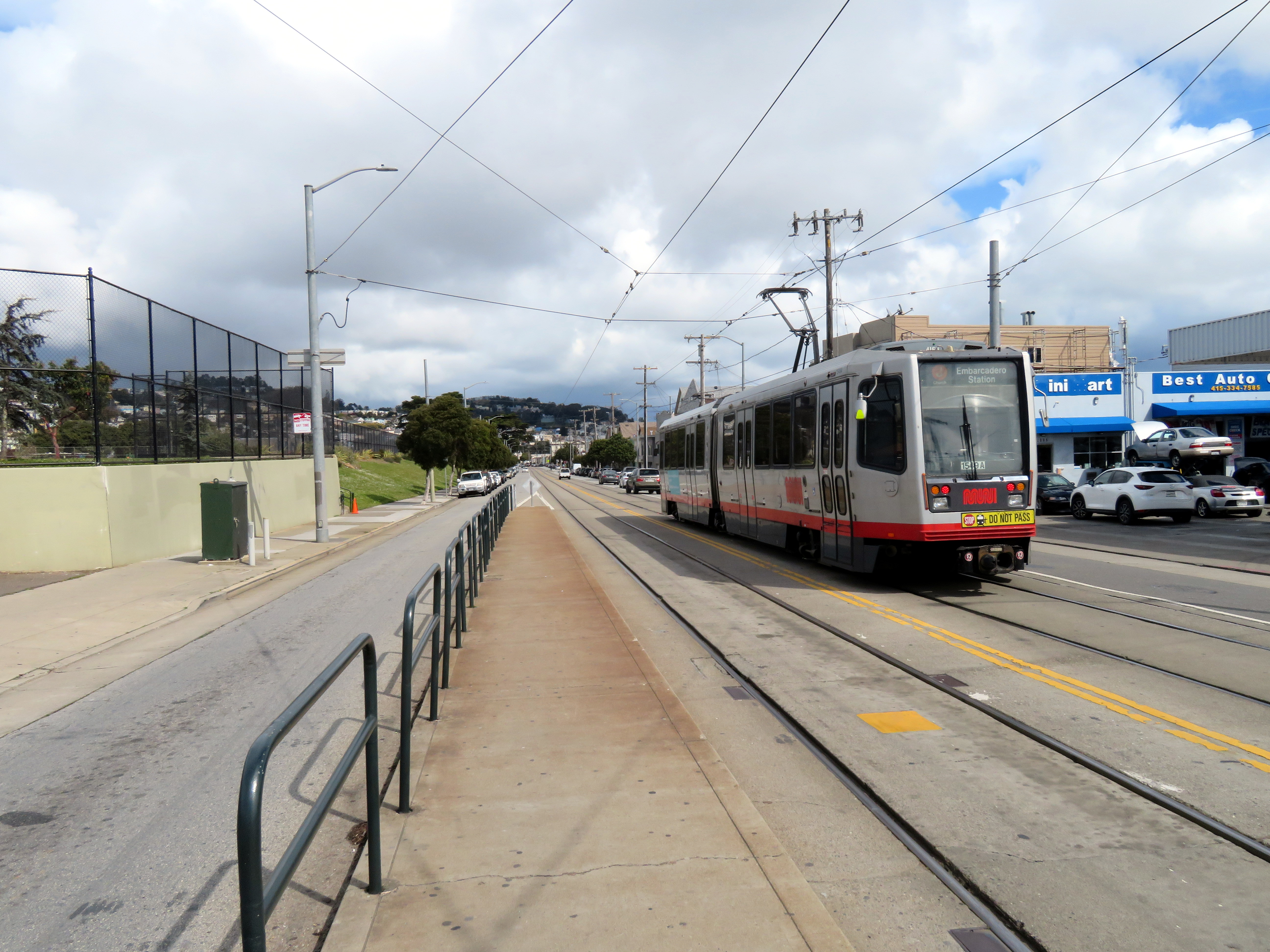 Inbound J Church train passing the outbound platform at San Jose and Ocean station in March 2018